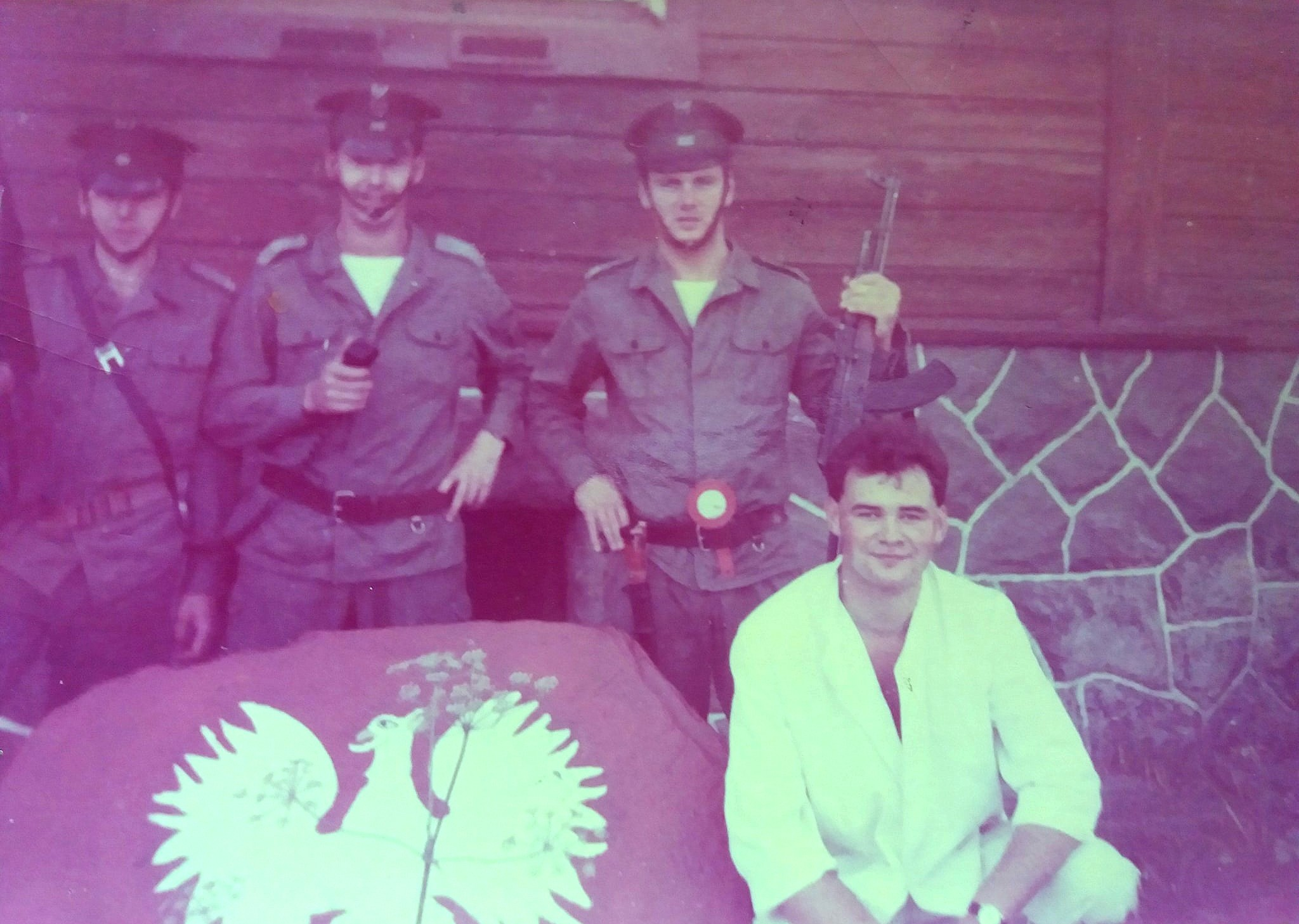 Border Protection Forces in Niedamirów